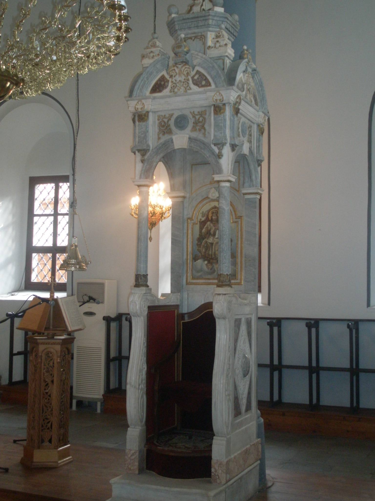 вл.трон